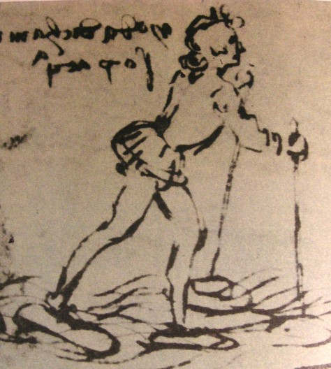 Leonardo da Vinci, shoes for walking on water.